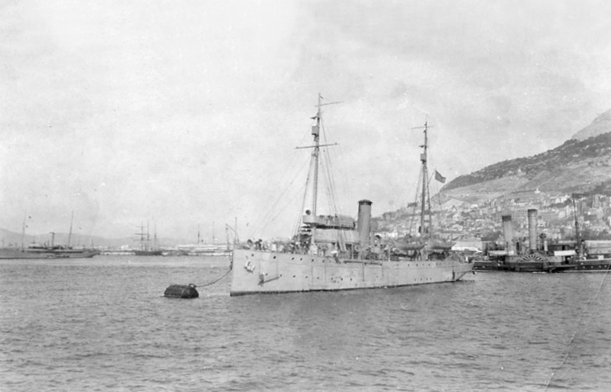 The U.S. Coast Guard cutter USCGC Tampa moored in a European port (possibly Gibraltar), circa 1917-1918. This ship was torpedoed and sunk on 26 September 1918, with the loss of all 131 persons on board. The original image is printed on post card stock. Note the paddle tug astern of Tampa and the large converted yacht in the left distance. The latter may be a Royal Navy vessel.